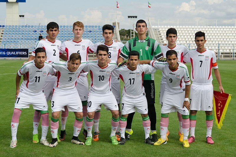 Match of Iran-under17 - India under-17 football teams in 2016 AFC U-16 Championship qualification -18 September 2015